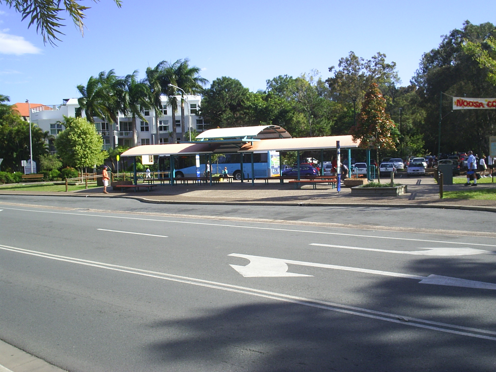 Noosa Bus Station on 07/09/06.